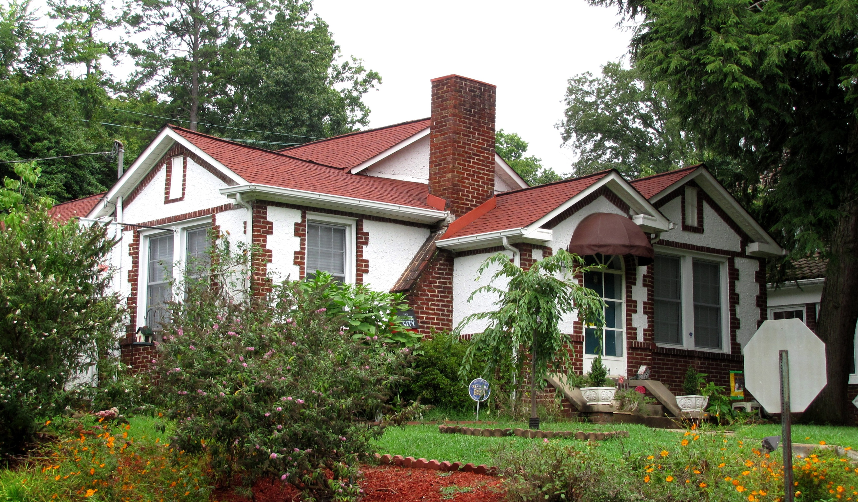 House at 2903 Fountain Park Boulevard in the North Hills neighborhood of Knoxville, Tennessee, USA. Built in 1928, this house is now listed as a contributing property within the NRHP-listed North Hills Historic District.